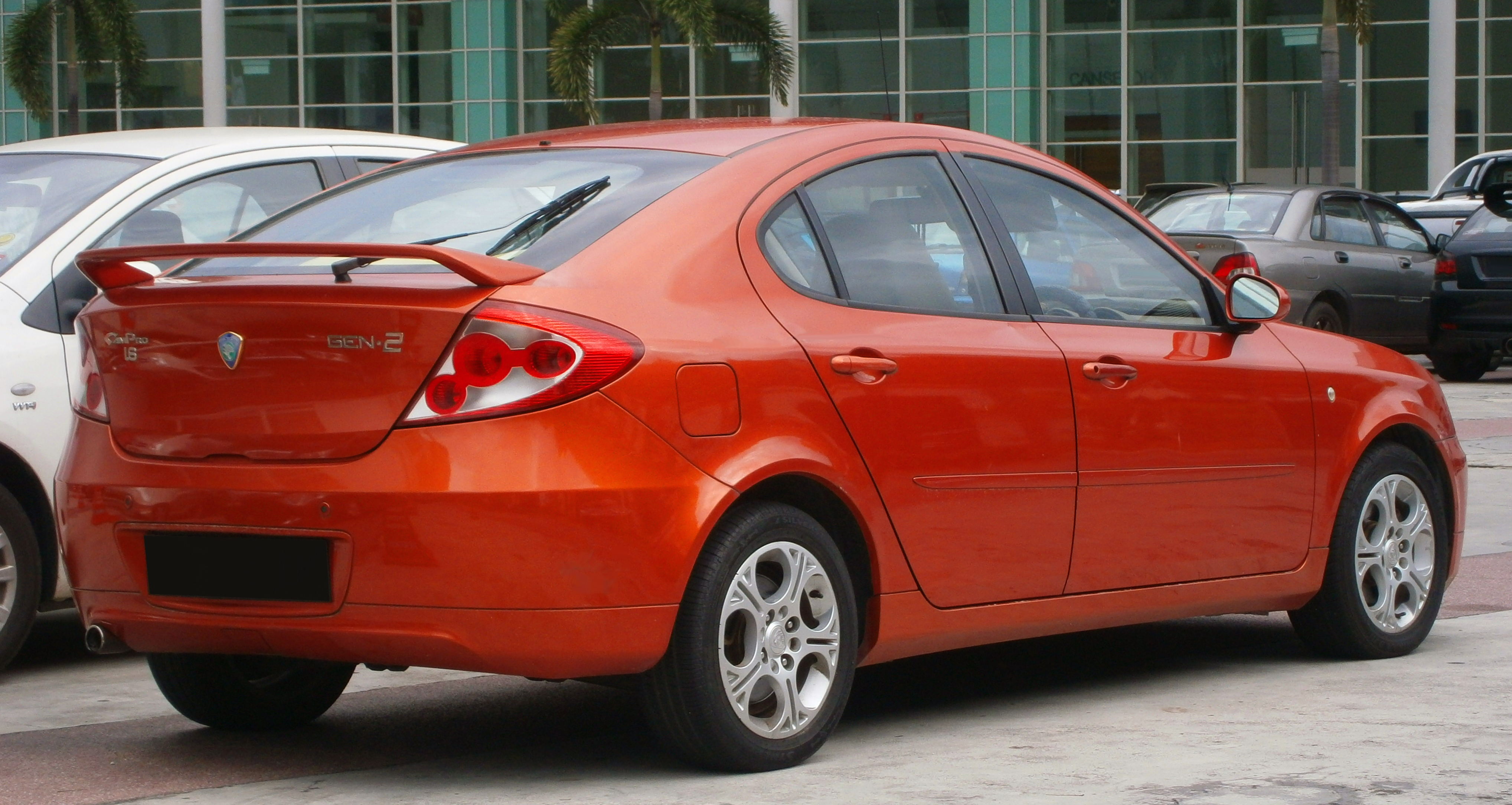 2005 Proton Gen-2 1.6 in Cyberjaya, Malaysia. Designed & Assembled in Malaysia